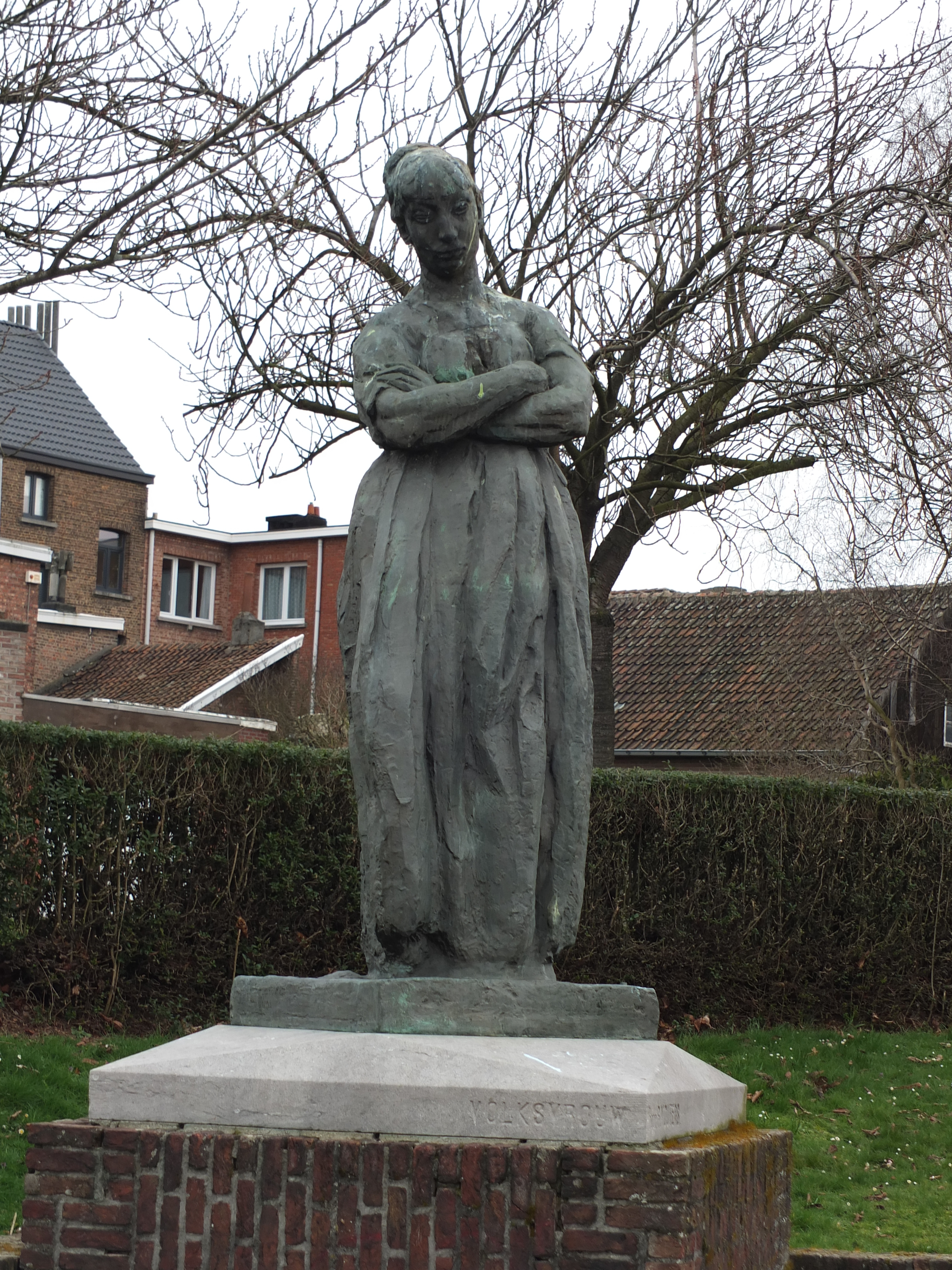 Statue of "A Common Woman" by Rik Wouters in the park of Boom, Flanders, Belgium.